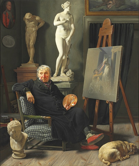 Martinus Rørbye - C.A. Lorentzen in his studio before 1828, Nivaagaards Malerisamling